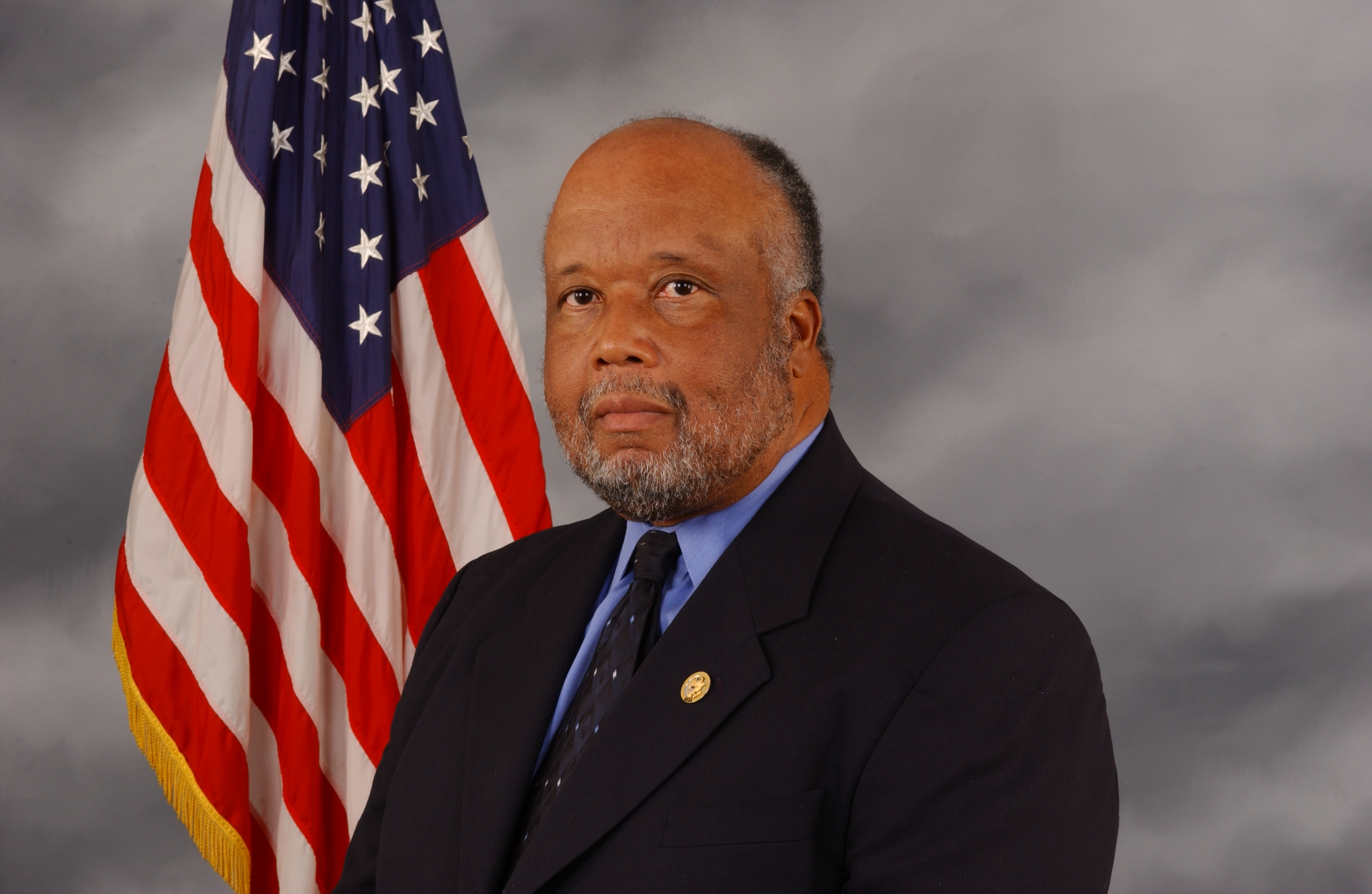 Bennie Thompson, member of the United States House of Representatives.